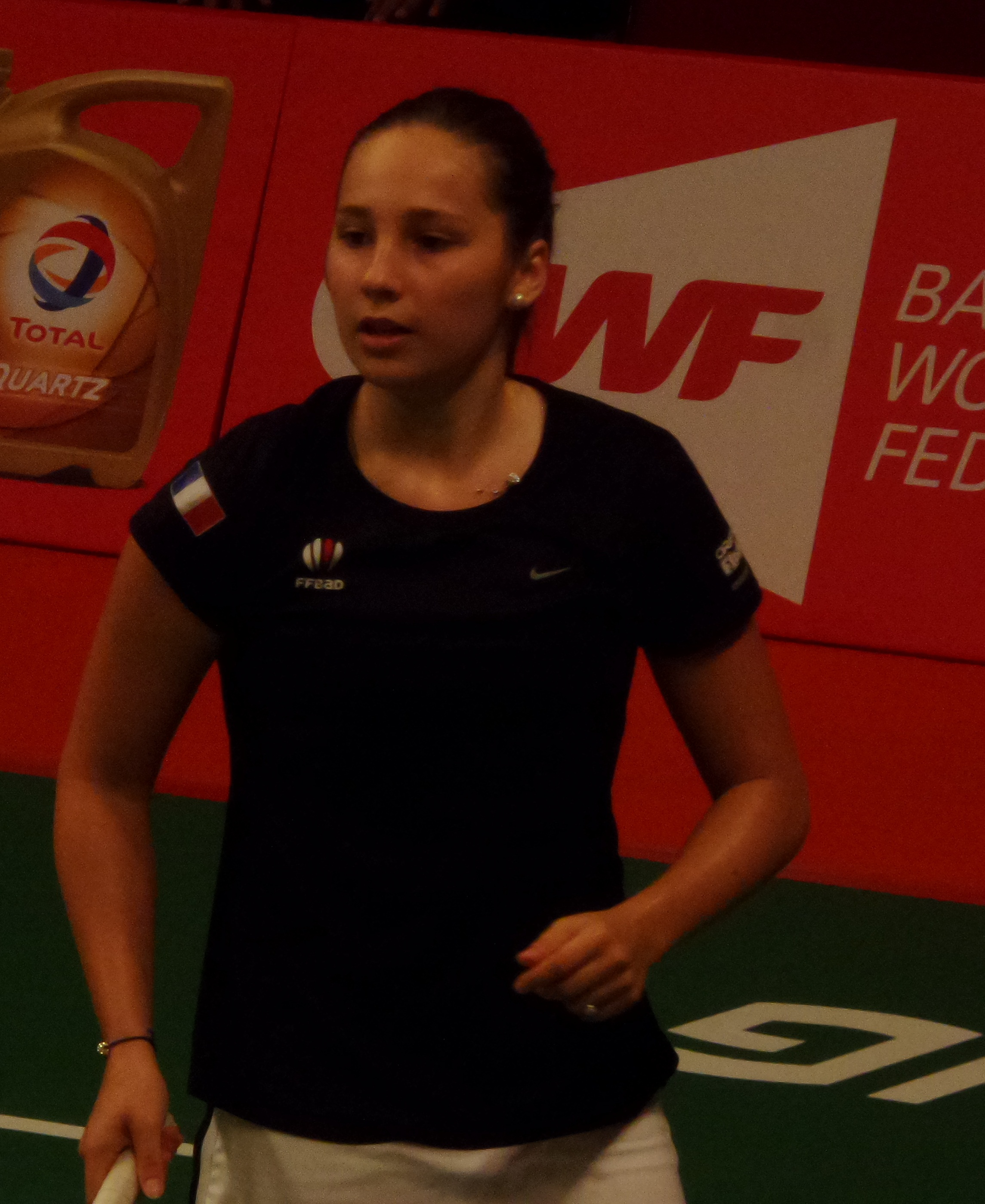 Delphine Lansac in action during Day 2 of the 2015 BWF World Championships